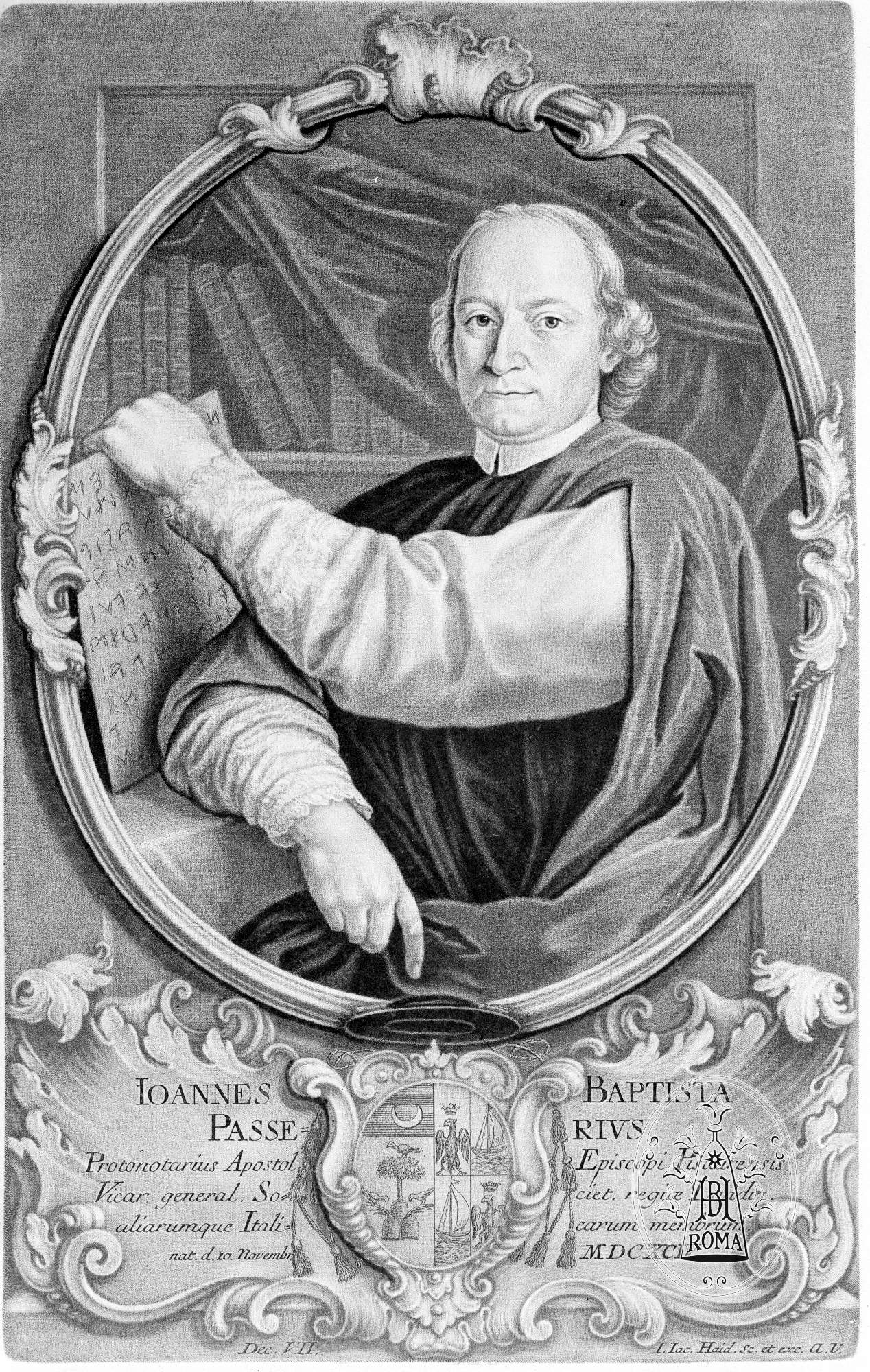 Giovanni Battista Passeri (1694–1780), italian archaeologist by Johann Jakob Haid (1704–1767).